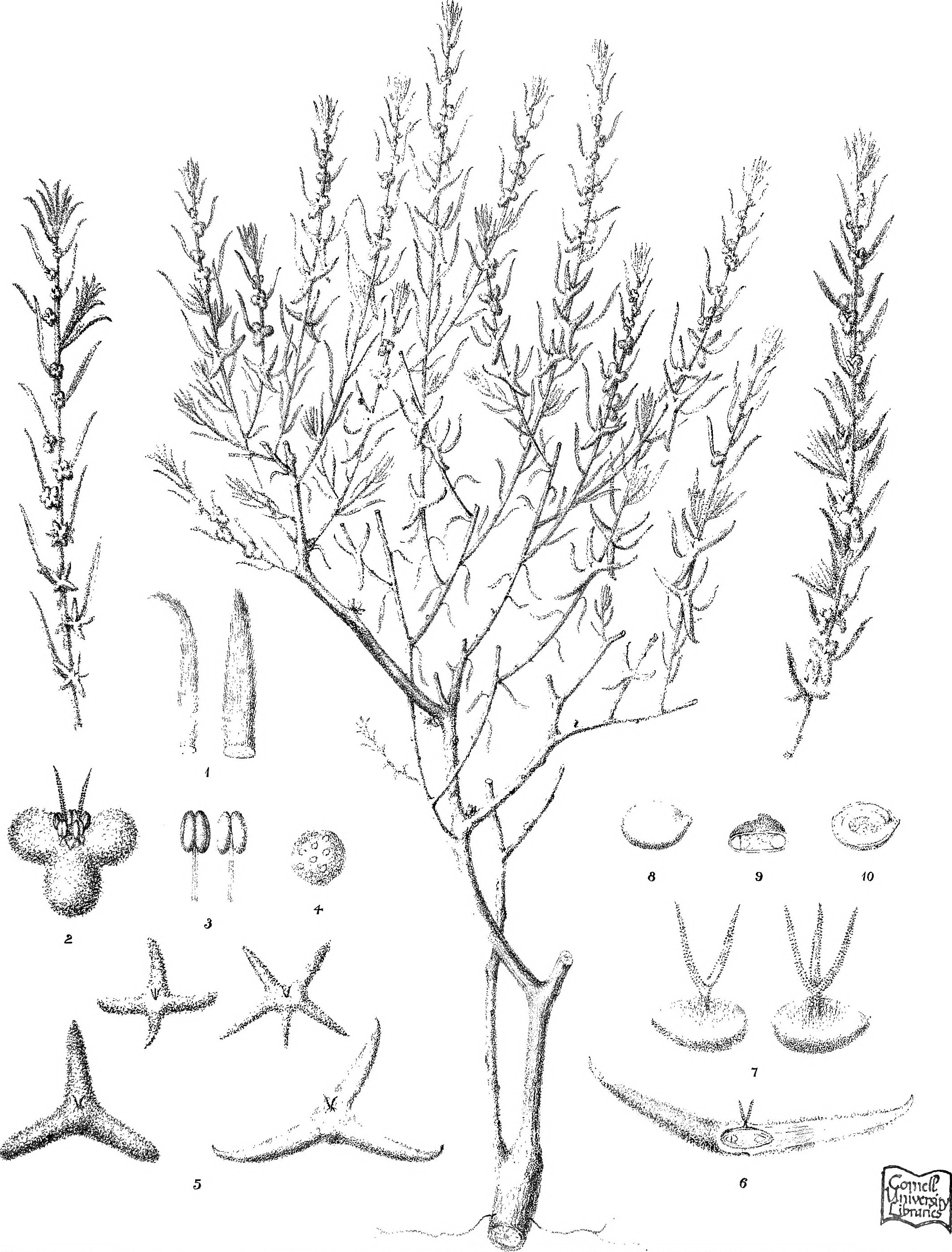 Title: Iconography of Australian salsolaceous plants Year: 1889 (1880s) Authors: Mueller, Ferdinand von, 1825-1896 Subjects: Shrubs; Salsoleae Publisher: Melbourne, Brain Text Appearing Before Image: LXIII Text Appearing After Image: R. Graff, del, 2. )iih. FvM direxil. Steam Lilho GovFtintin^ Office Helb. Bdi^sasi tsmcscDsma© F.v.M.